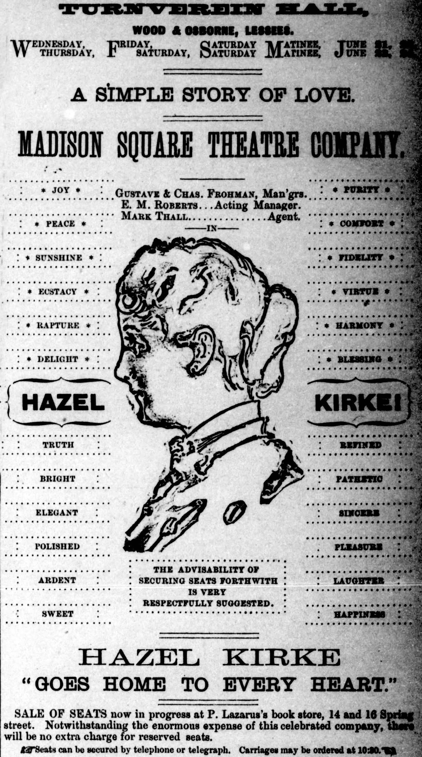 Hazel Kirke is a play in four acts written by American actor and dramatist Steele MacKaye. This is a newspaper advertisement.